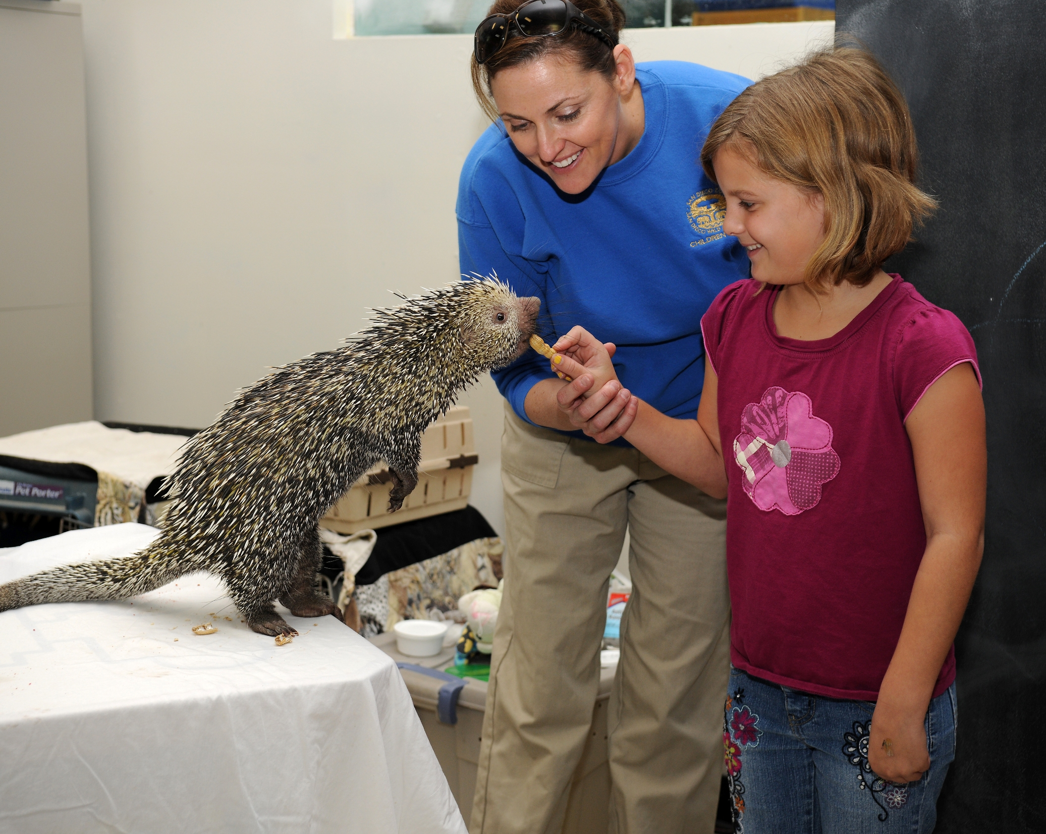 SAN DIEGO (Jan. 6, 2010) A patient in a pediatric inpatient unit at Naval Medical Center San Diego (NMCSD), gets help feeding a peanut to a 5-month-old female Brazilian porcupine from San Diego Zoo Senior Keeper Nicole Gossler during the Zoo Express program visit. NMCSD offers pediatric patients various activities during hospitalization to add fun and diversity to their recovery. (U.S. Navy photo by Mass Communication Specialist 1st Class Todd Hack/Released)